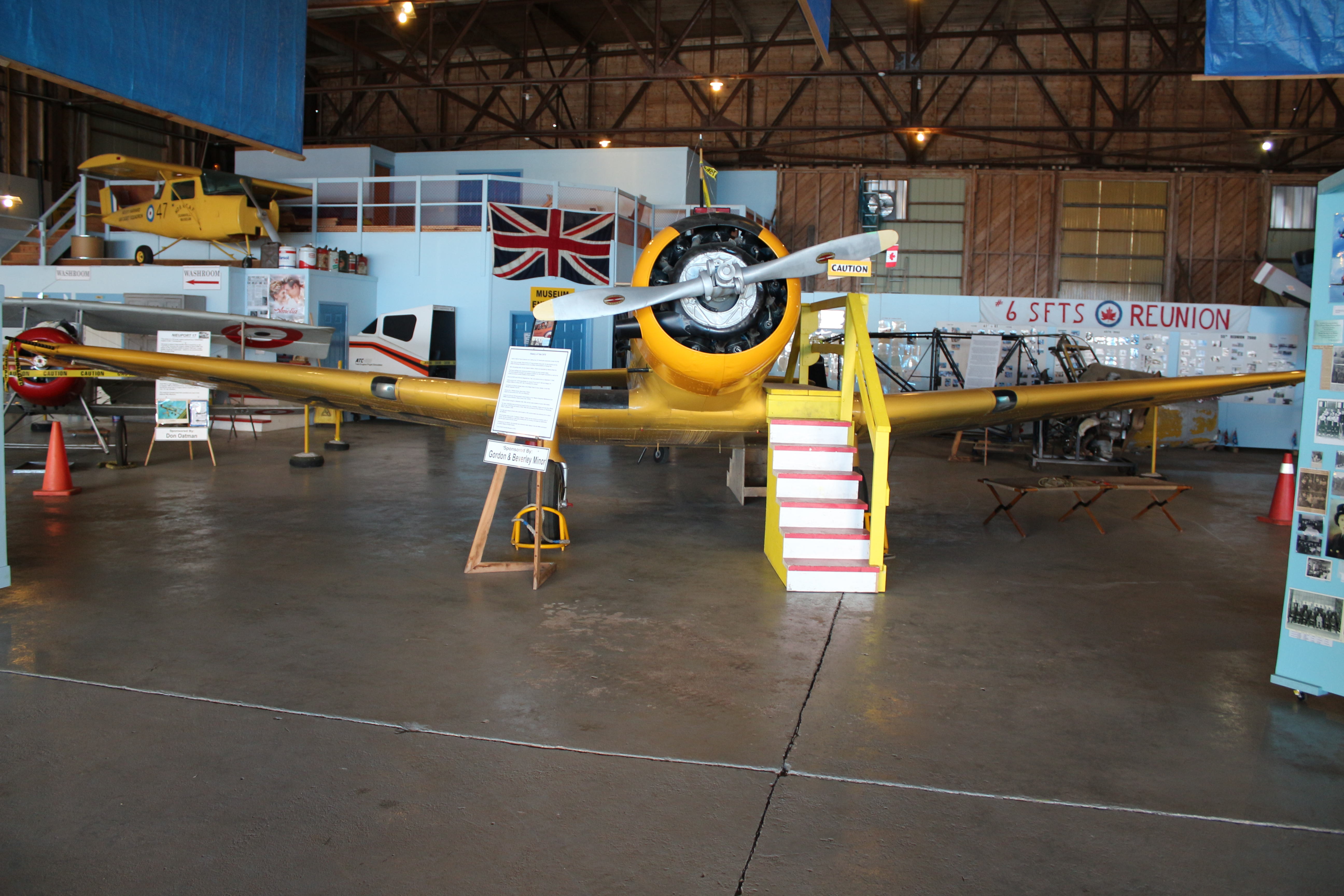 Yale aircraft used by James Cagney in the Movie "Captain of the Clouds". Located in the Air Museum outside of Dunnville Ontario Canada.